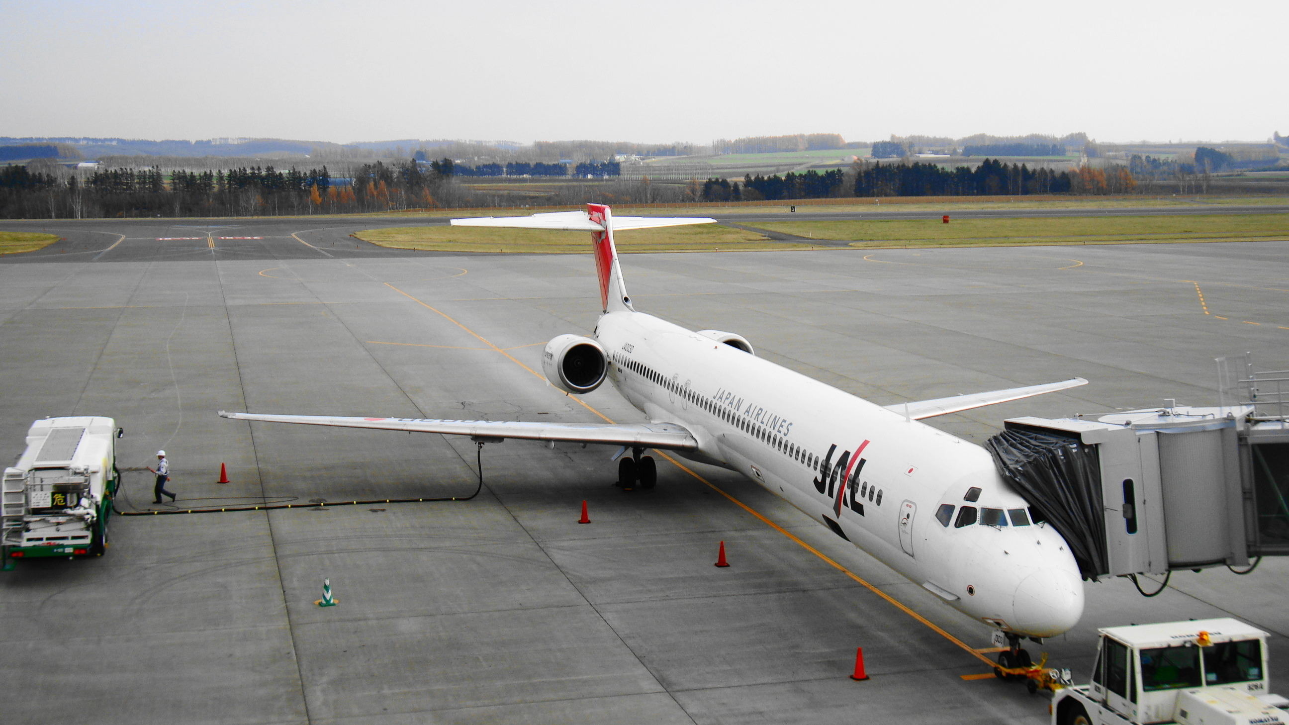 Japan Airlines McDonnell Douglas MD-90 JA003D